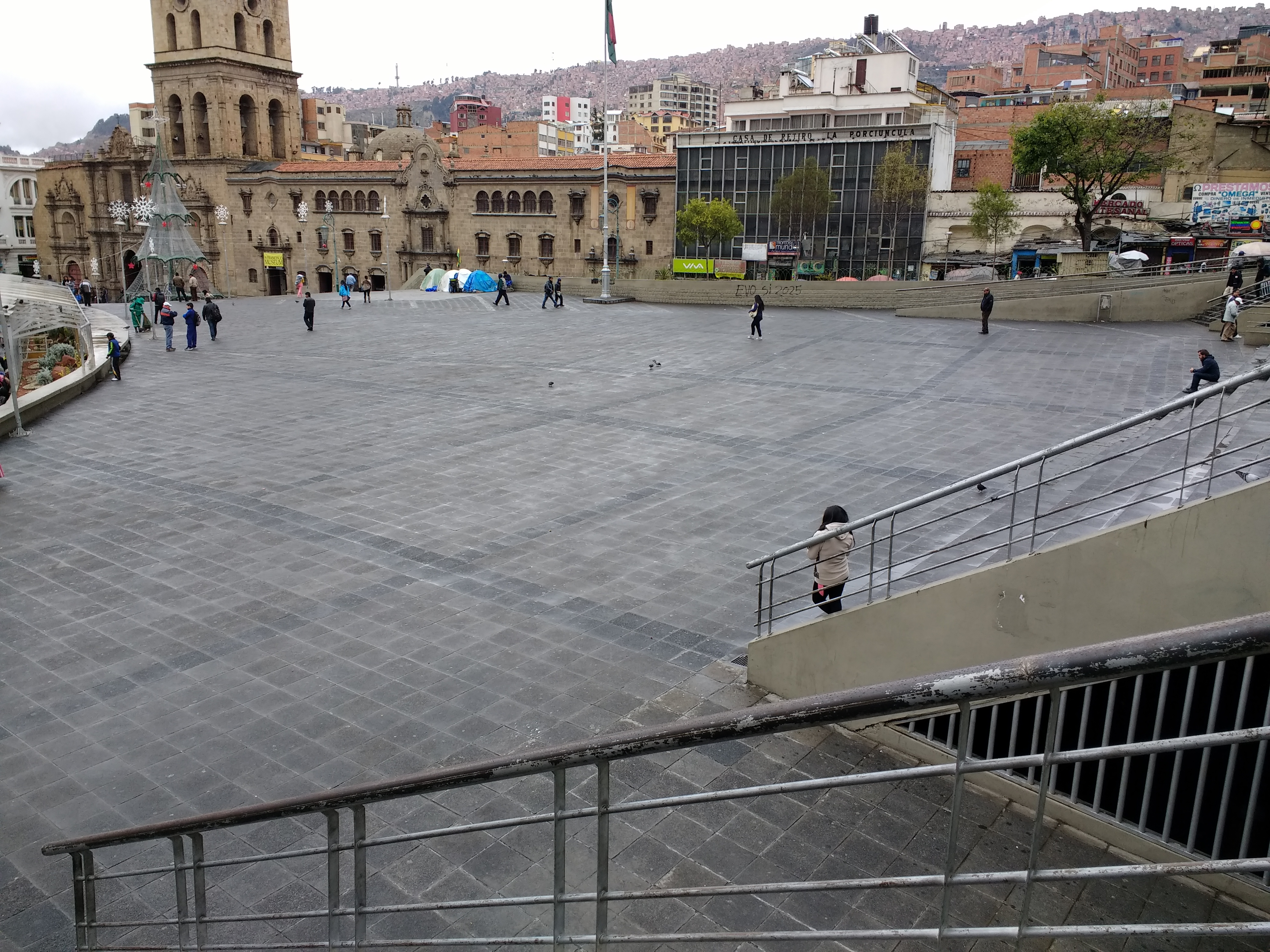 Plaza San Francisco in La Paz, Bolivia, with christmas tree and tents in front of Museo San Francisco, December 2017.